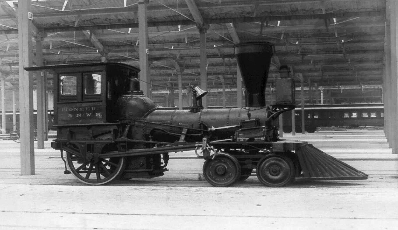 Pioneer locomotive Chicago and North Western Railway. First locomotive to run out of Chicago.Sharpened, slightly brightened, and cropped from original by uploader.